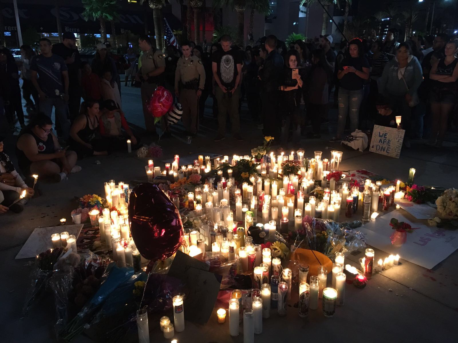 People in Las Vegas take part in vigil honoring victims of Mass shooting targeting concert goers at a Country music festival at the Mandalay Bay Hotel, Oct. 2, 2017. (Photo: C. Mendoza / VOA)